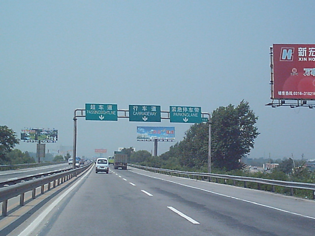 Jingha Expressway